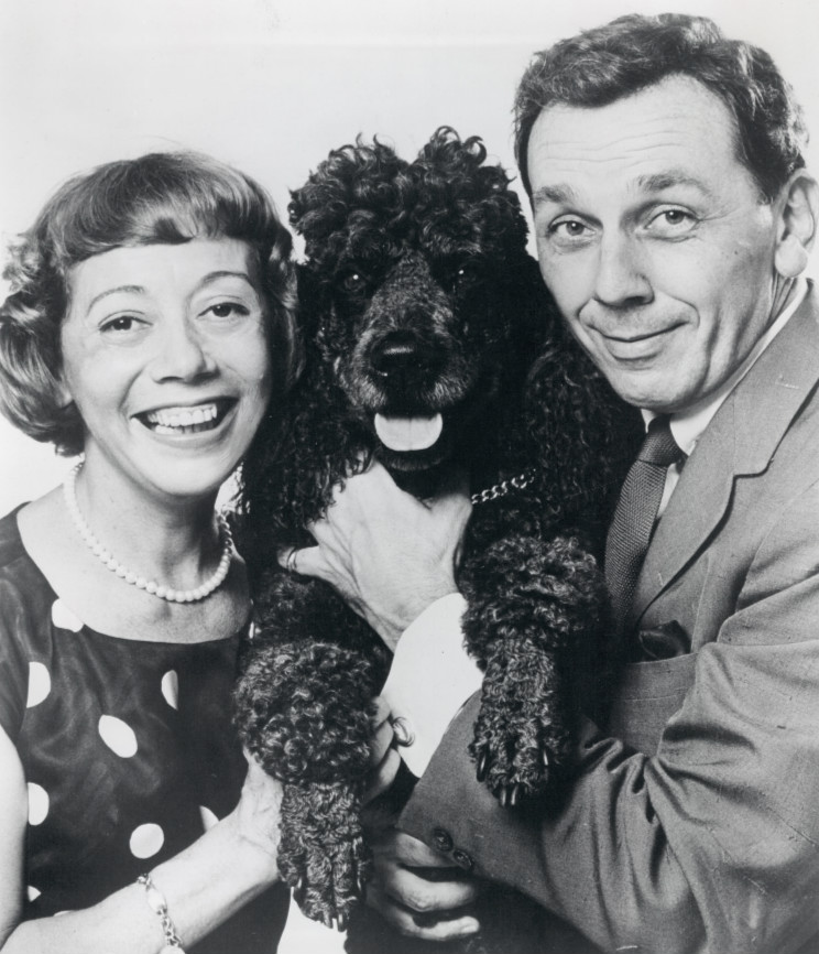 Publicity photo of Imogene Coca and her husband, King Donovan. The couple was touring in a production of You Know I Can't Hear You When the Water's Running.